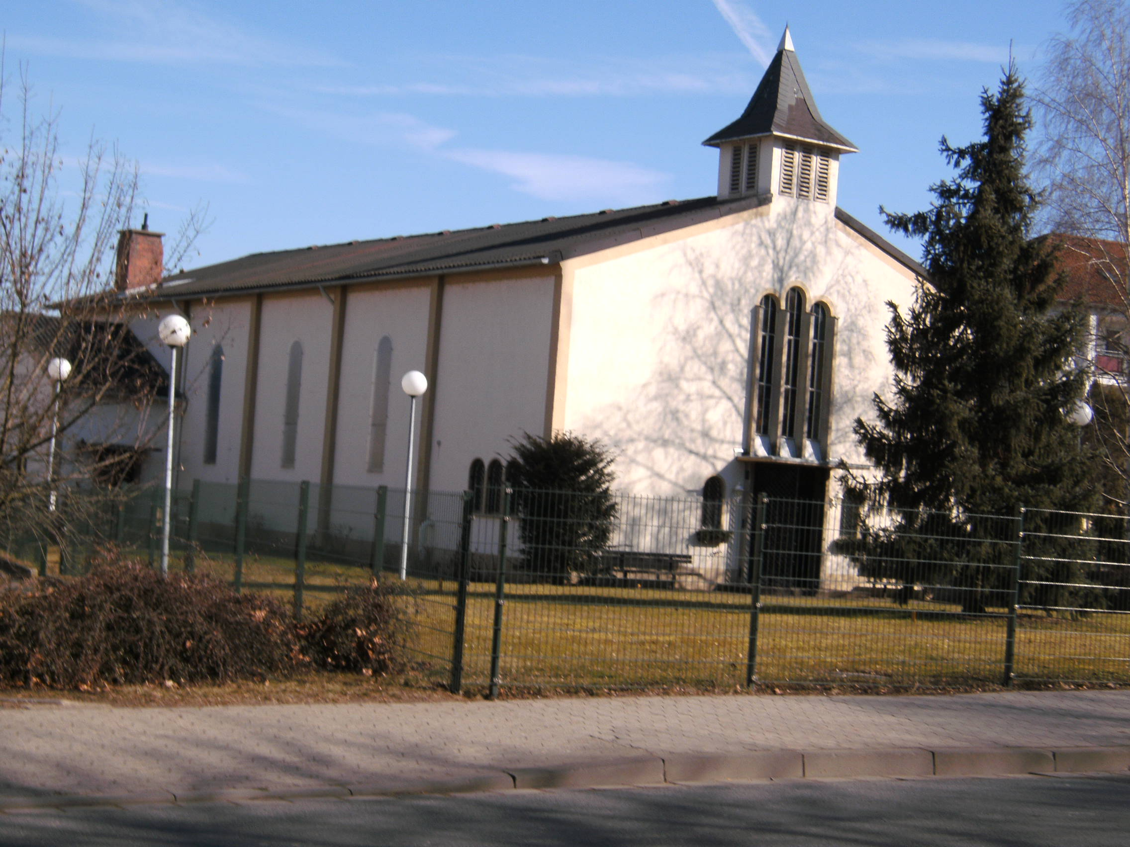 Synagogue and former US army chapel in Bad Kreuznach